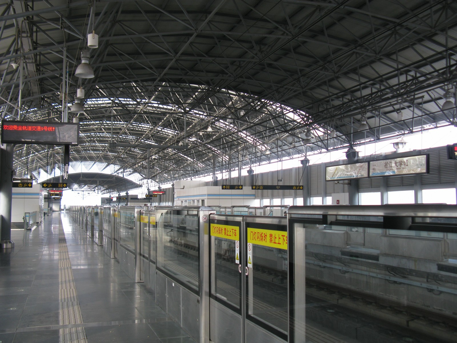 Line 9 Platform of Songjiang University Town Station